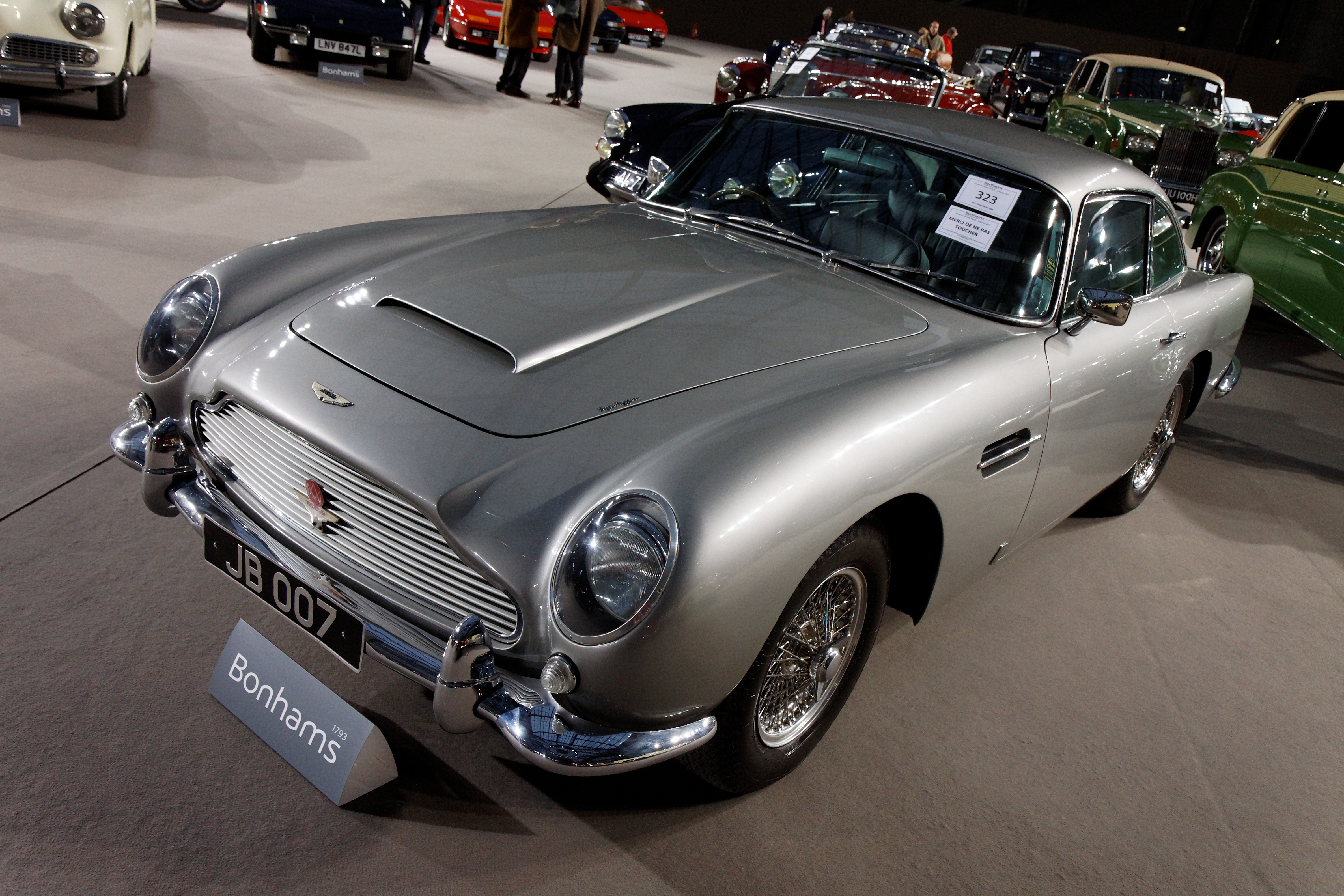 1964 Aston Martin DB5 Sports Saloon during « 110 ans de l'automobile » exhibition in the Grand Palais.